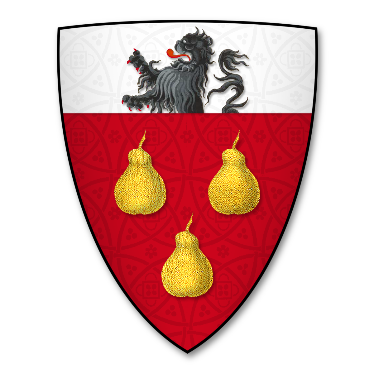 Armorial Bearings of the PERROTT family as borne by the Lords of Wellington, temp. Eliz. I., and by several branches settled at Morton-on-Lug, Bullingham, and in the City of Hereford. Arms: Gules three pears or, on a chief argent a demi-lion issuant sable, armed of the field. Crest: A parrot vert, holding in the dexter claw a pear or, with two leaves vert. Motto: Amo ut invenio. Strong, George (1848) The Heraldry of Herefordshire: Being a Collection of the Armorial Bearings of Families Which Have Been Seated in the County at Various Periods Down to the Present Time., London: Churton Press